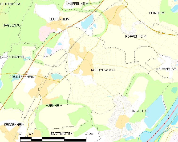 Map of French municipality